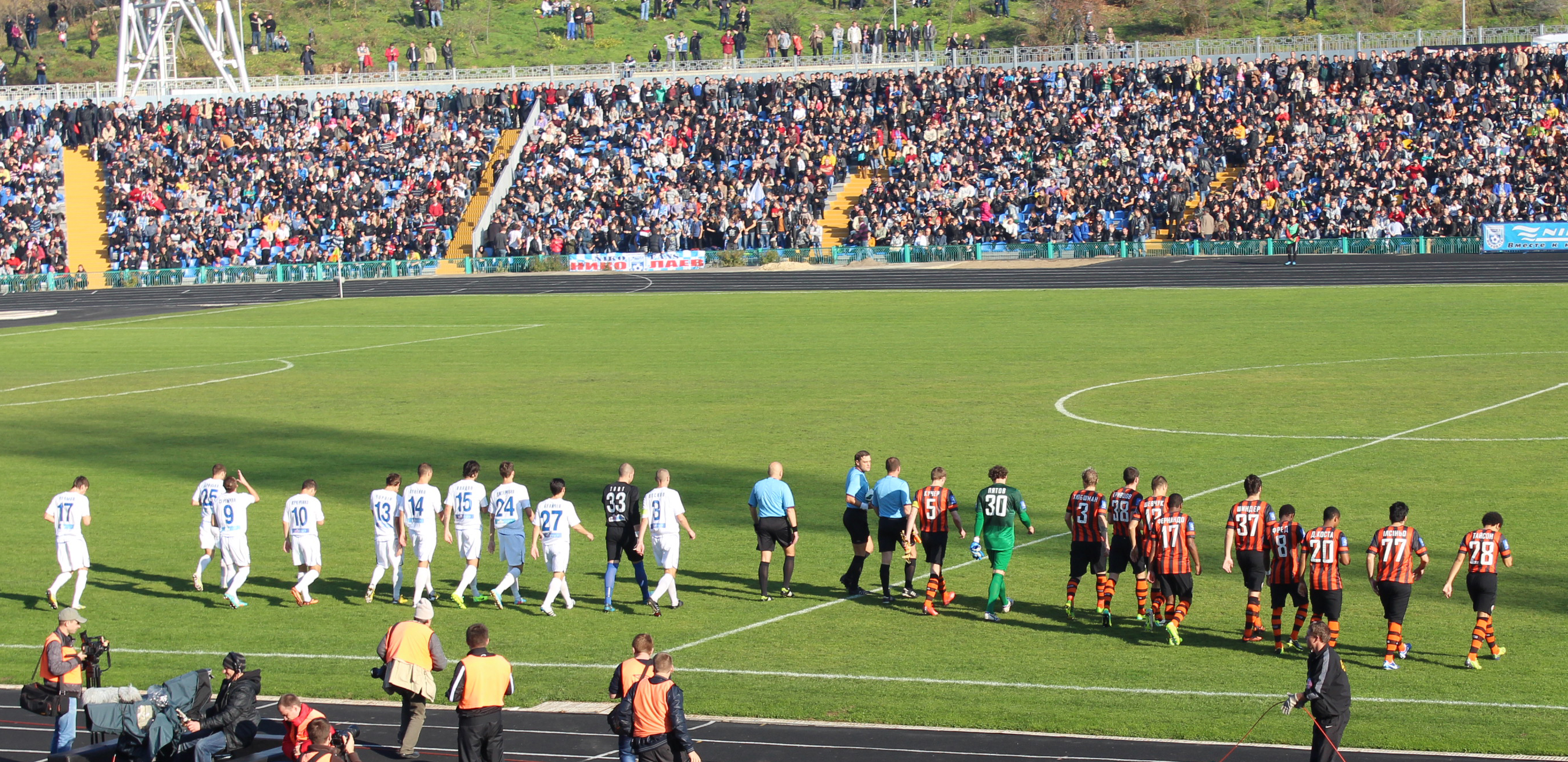 2013.10.29 MFC Mykolaiv vs. FC Shakhtar Donetsk